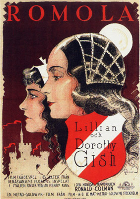 Poster - Romola - directed by Henry King - 1924